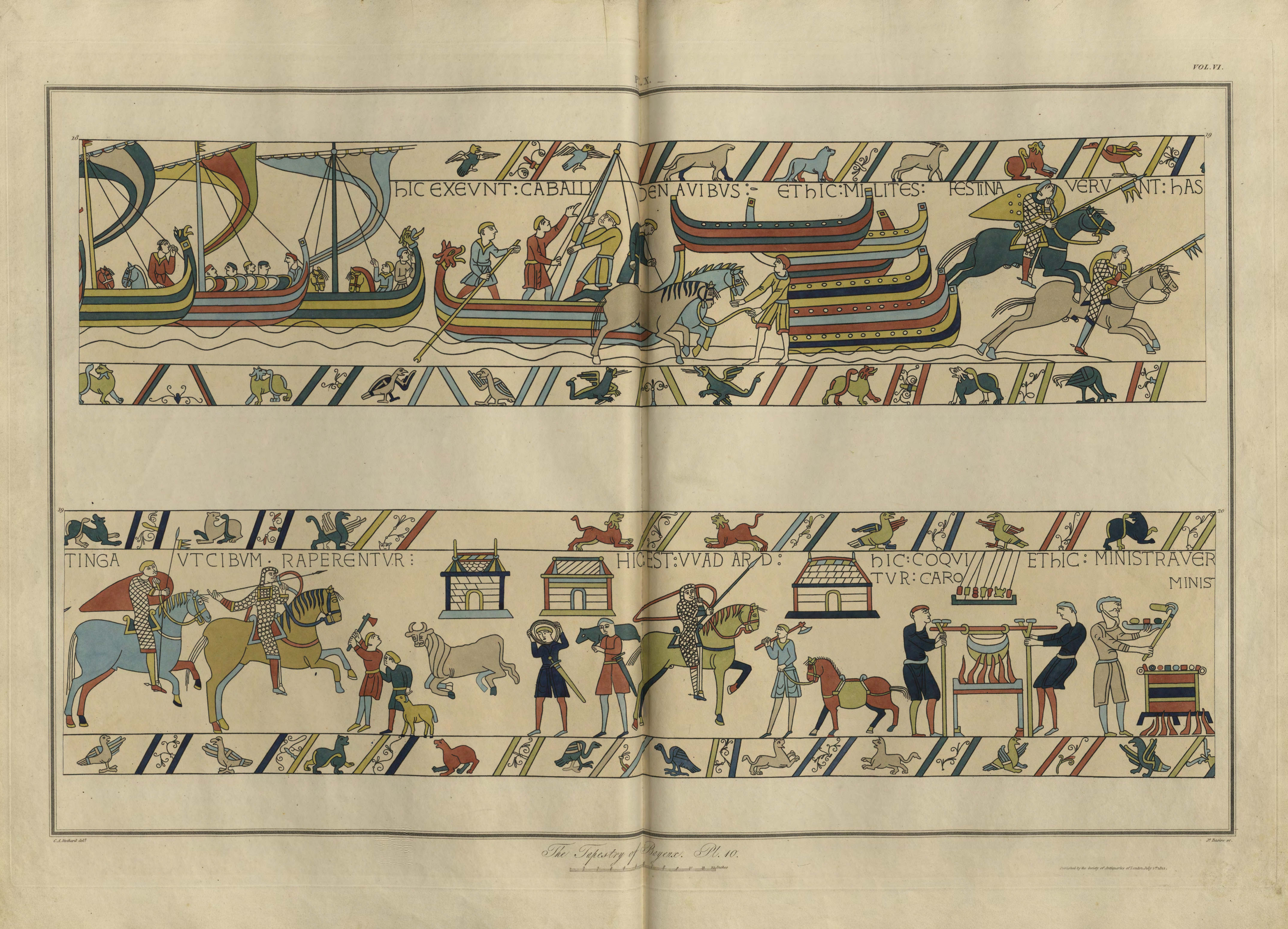 Engraving from a set of the complete Bayeux tapestry, published in 1823 Latin text of captions: HIC EXEUNT CABALLI DE NAVIBUS ET HIC MILITES FESTINAVERUNT HESTINGA UT CIBUM RAPERENTUR HIC EST WADARD HIC COQUITUR CARO ET HIC MINISTRAVERUNT MINISTRI English translation of captions: Here the horses leave the ships and here the knights have hurried to Hastings to seize food Here is Wadard Here the meat is being cooked and here the servants have served